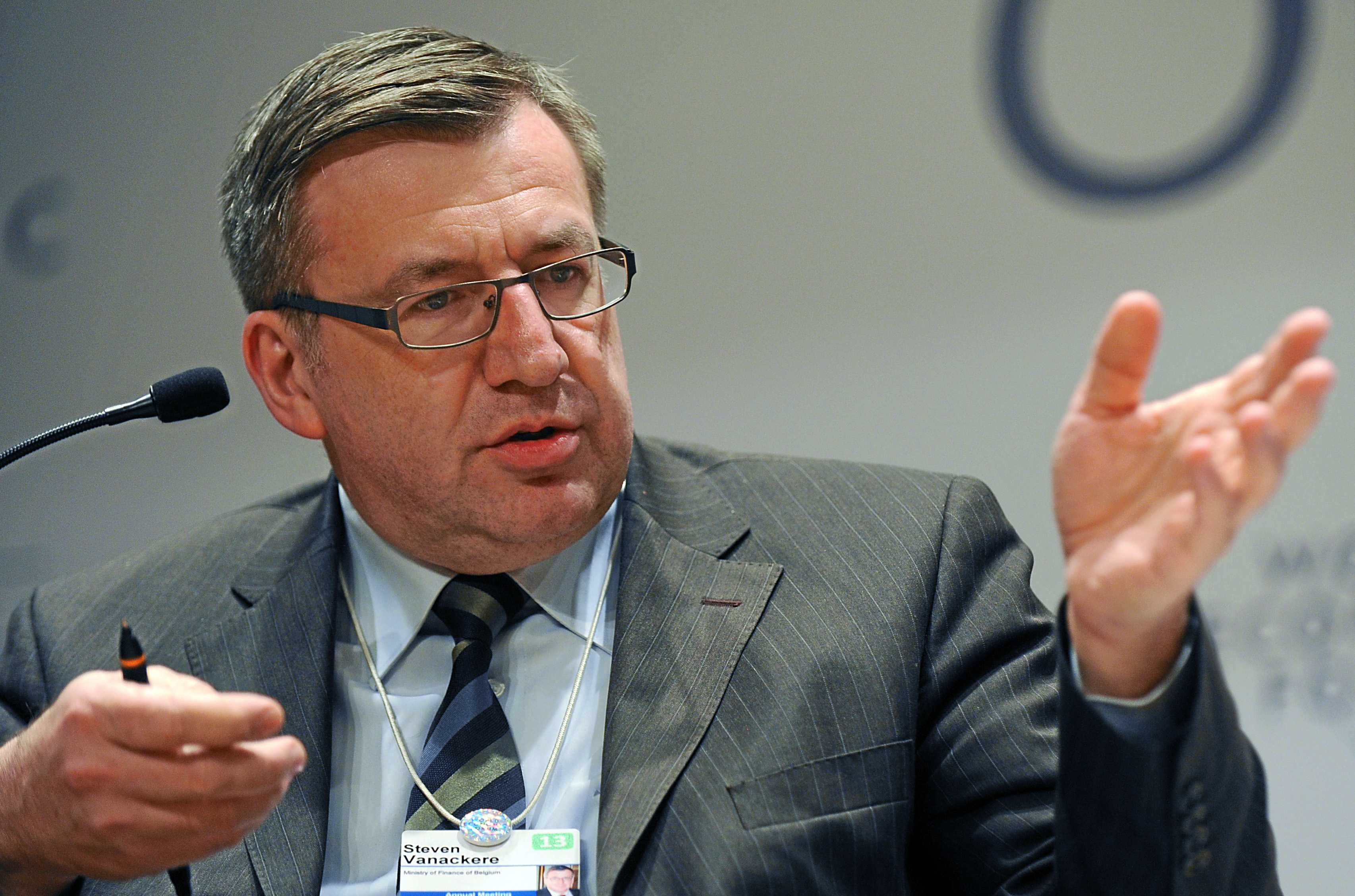 DAVOS/SWITZERLAND, 25JAN13 - Steven Vanackere, Minister of Finance of Belgium makes a point during the session 'Open forum: Eurozone - Solidarity or Domination?' at the Annual Meeting 2013 of the World Economic Forum at the Swiss alpine high school in Davos, Switzerland, January 25, 2013. . . Copyright by World Economic Forum. . Michael Wuertenberg